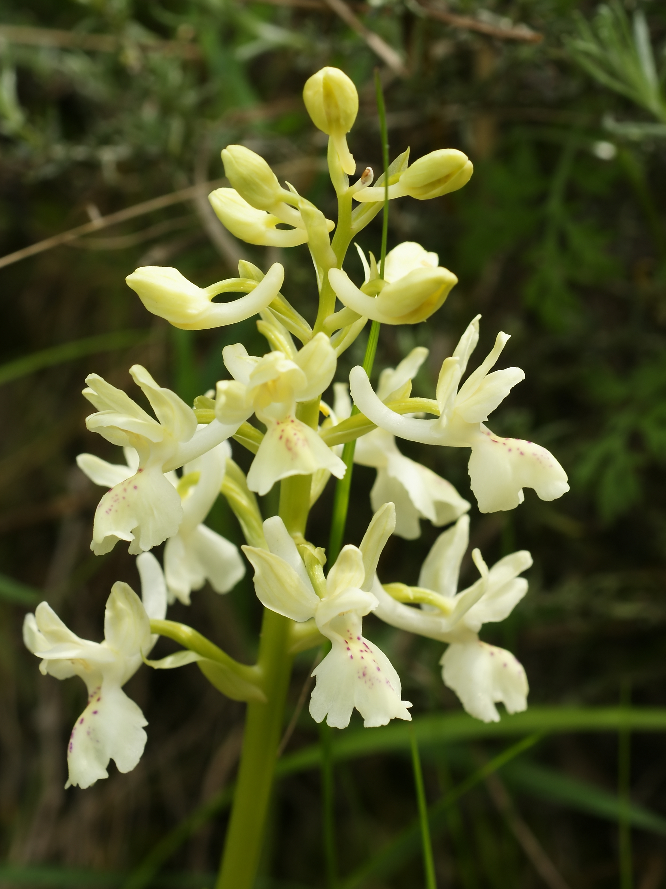 Provence Orchid. Approximate co-ordinates: plant located within 5 km from Ovodda, Sardinia, Italy